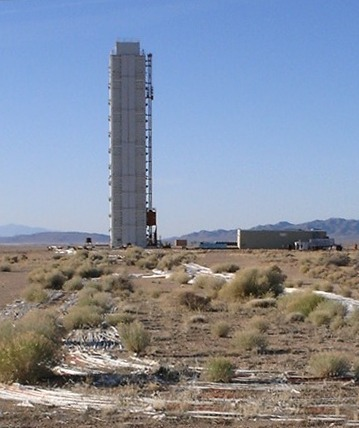 Photo of IceCap, a nuclear bomb which was not tested...ready for test.